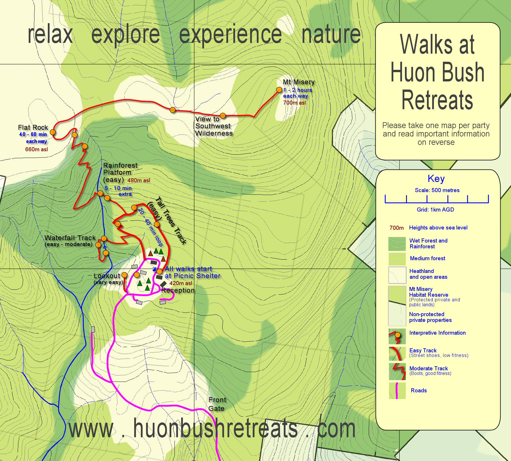 Map of Mount Misery track network, Huon Bush Retreats, Huon Valley, Tasmania